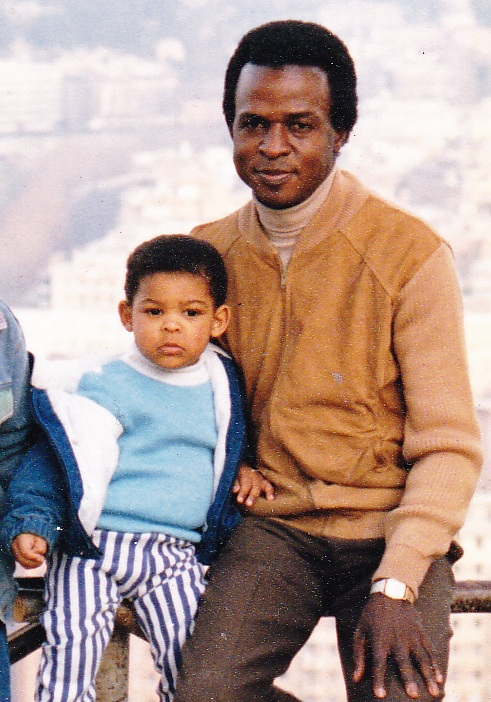 Déna Dungia et Emmanuel Dungia, Roma, Italy, 19 February 1989